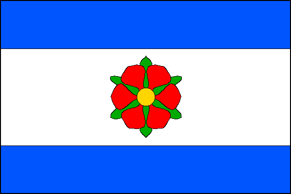 Municipal flag of Hodonín town, Hodonín District, Czech Republic.